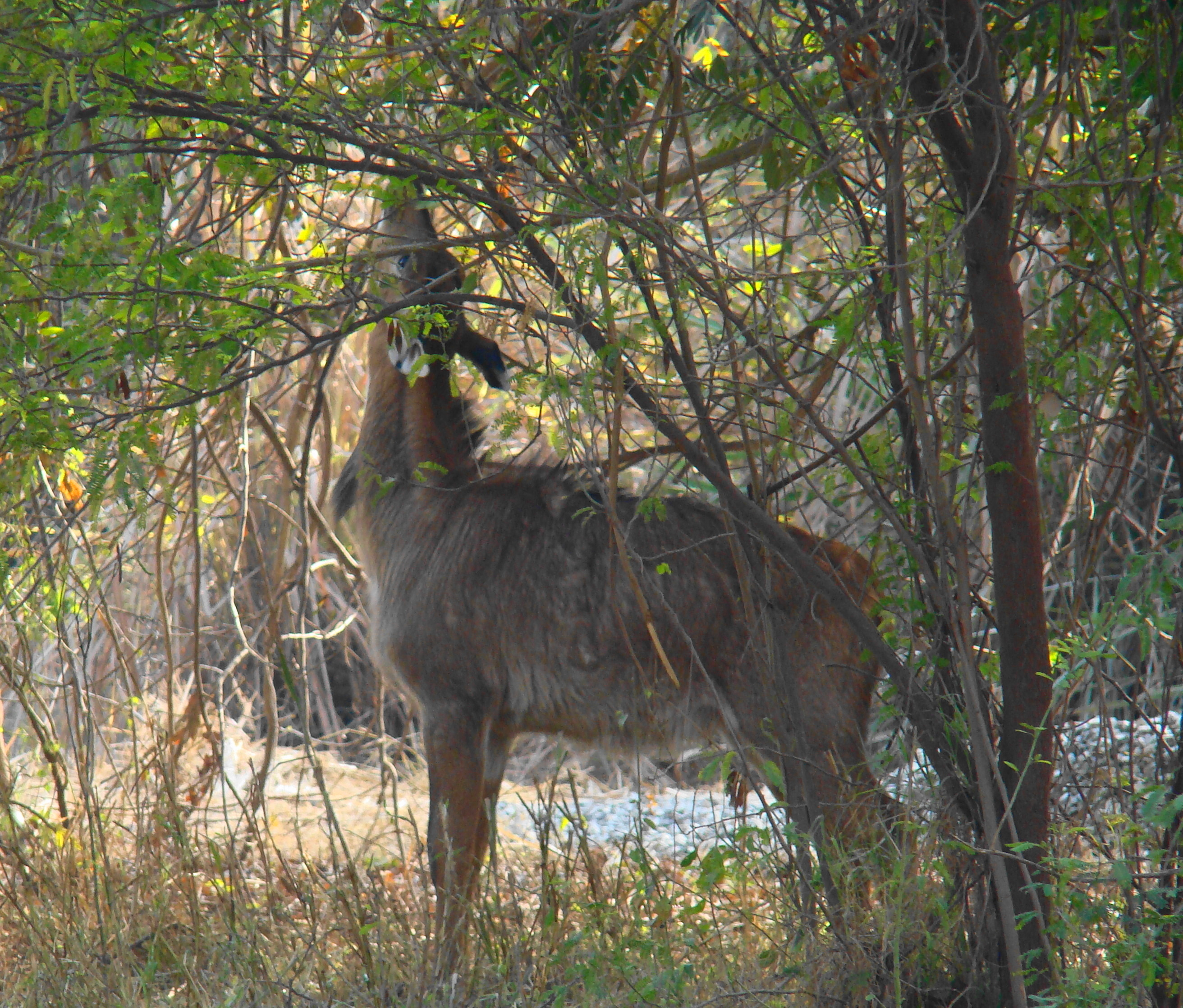 A Bluebull in Hisar Cantonment area